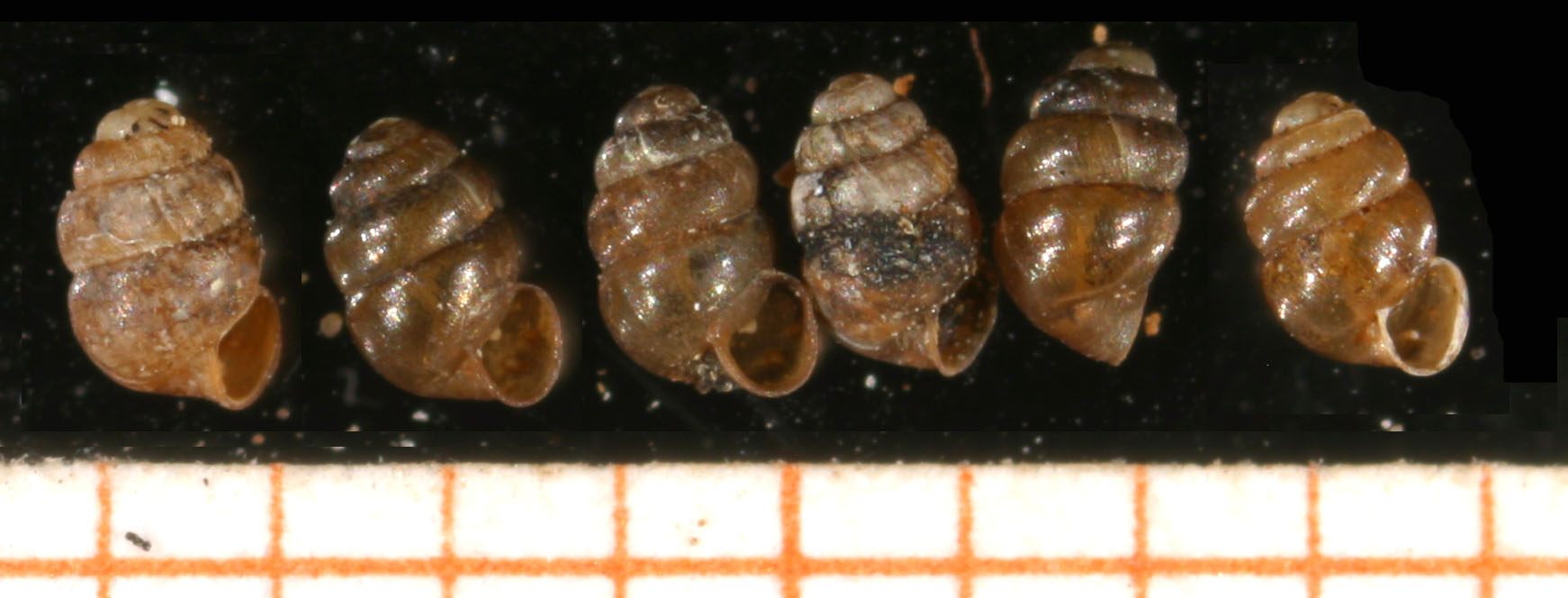 Photo of Vertigo geyeri. Scale in mm. Locality: Austria: Kärnten, Langsee near St. Georgen. Date: 02-06-1995.